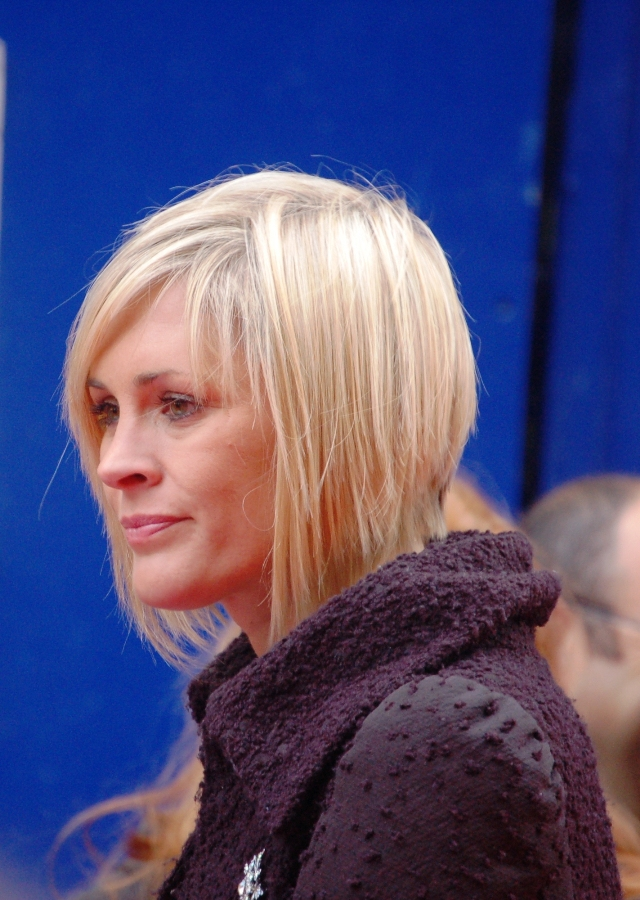 Scottish TV presenter Jenni Falconer, taken just before the BAFTA awards, London. Originally this was on the Flickr website: of which I am a member.